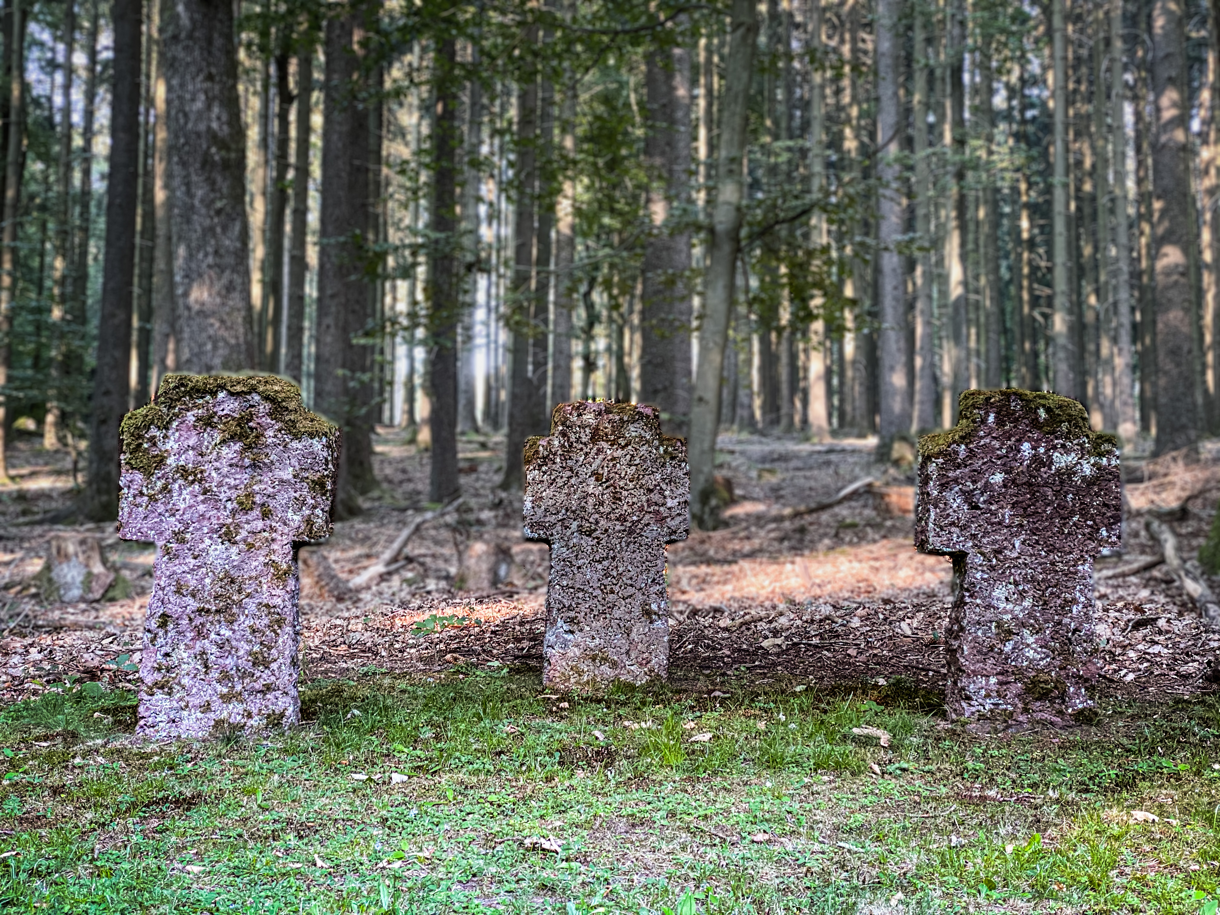 Moss covered Tombstones of the Russian PoW-Cemetery at the former Stalag IX-B